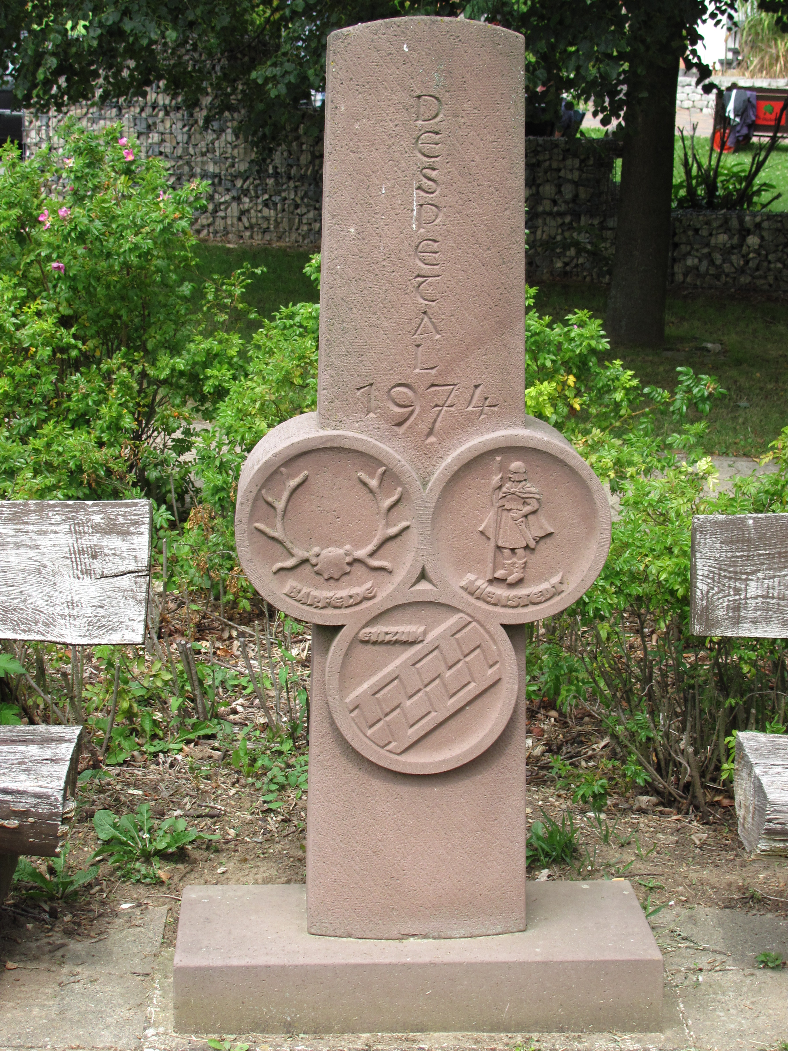 Memorial of the unification of Barfelde, Eitzum and Nienstedt in Despetal, Germany.